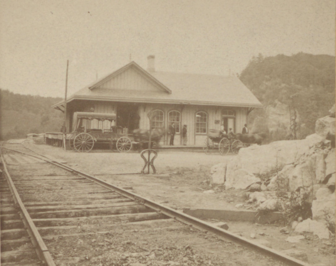 Wallkill Valley Railroad station in Rosendale, New York in the 1880s.